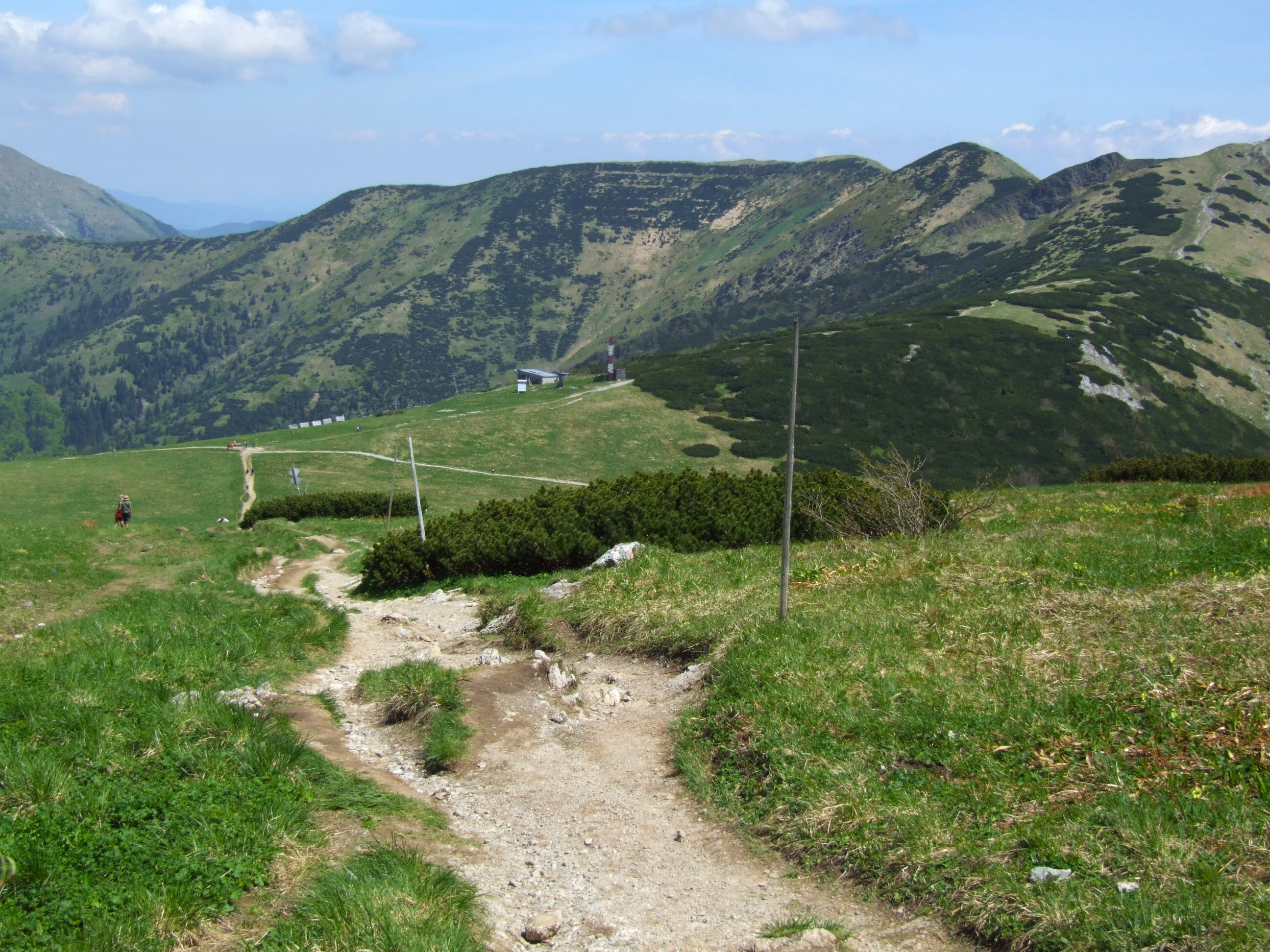 Malá Fatra - red trail blazing near Snilovské sedlo